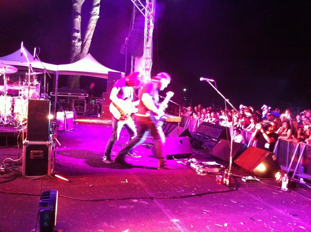 Thirsty Merc playing onstage on 5 March 2011 in Fremantle, Western Australia.